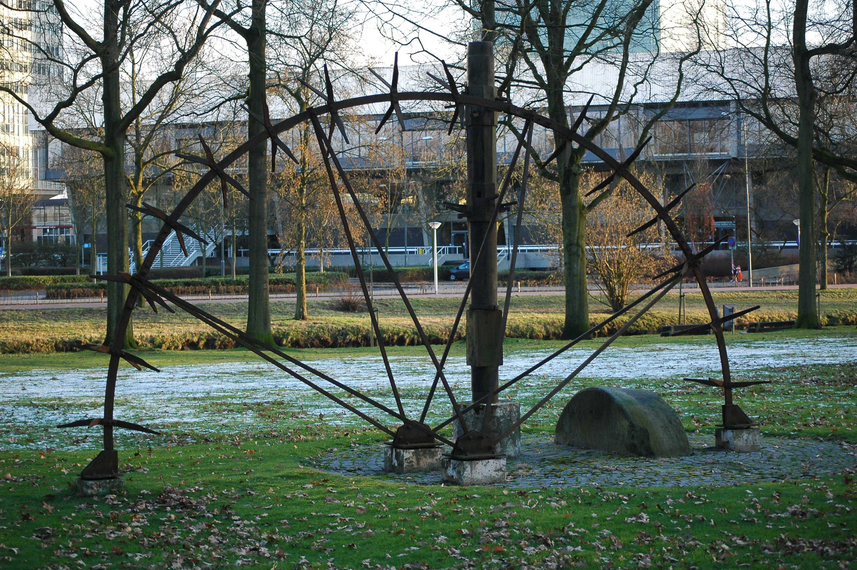 Monument for the watermill at Woensel